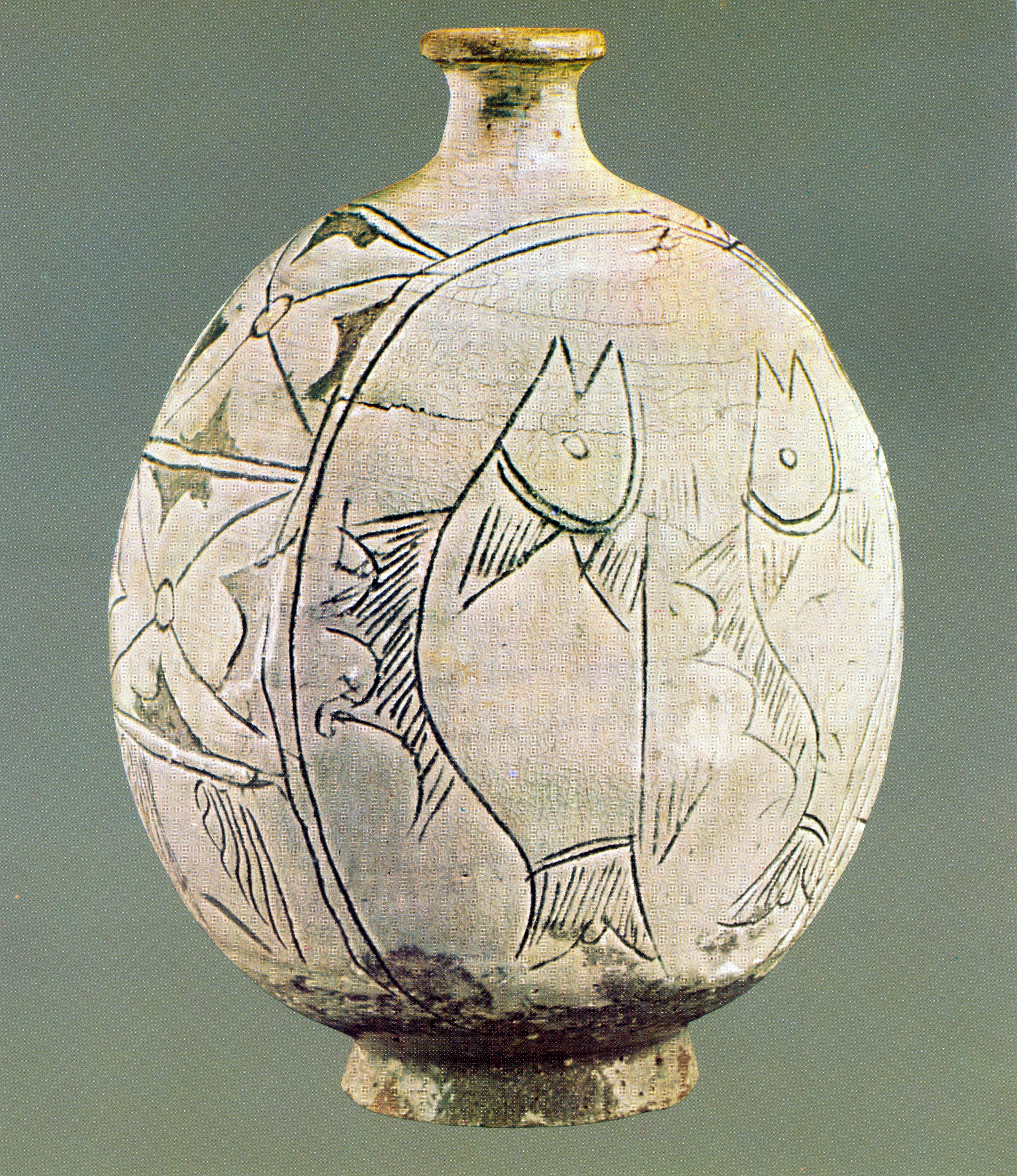 Buncheong Flat Bottle with Incised Fish Design